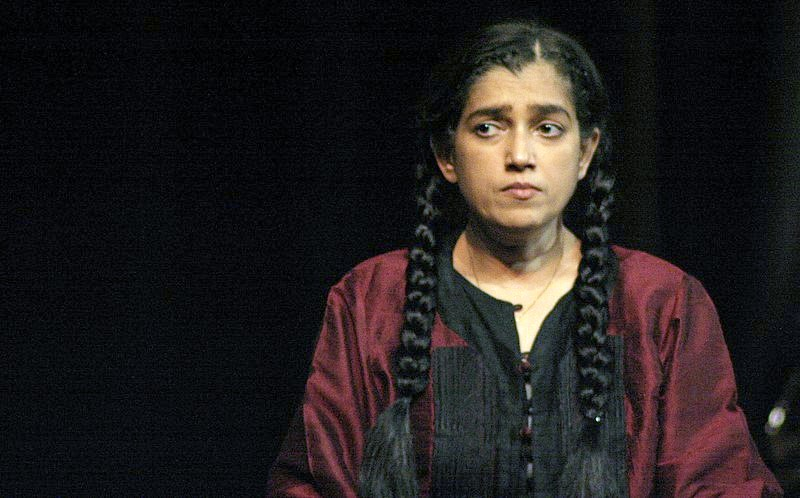 National School of Drama Delhi celebrated 50th Anniversary of its formation in January 2008 and simultaneously Tenth theatre Utsav(Festival), Bharat Rang Mahotsav, was organized .Here is photo of Ratna Pathak taken during festival .